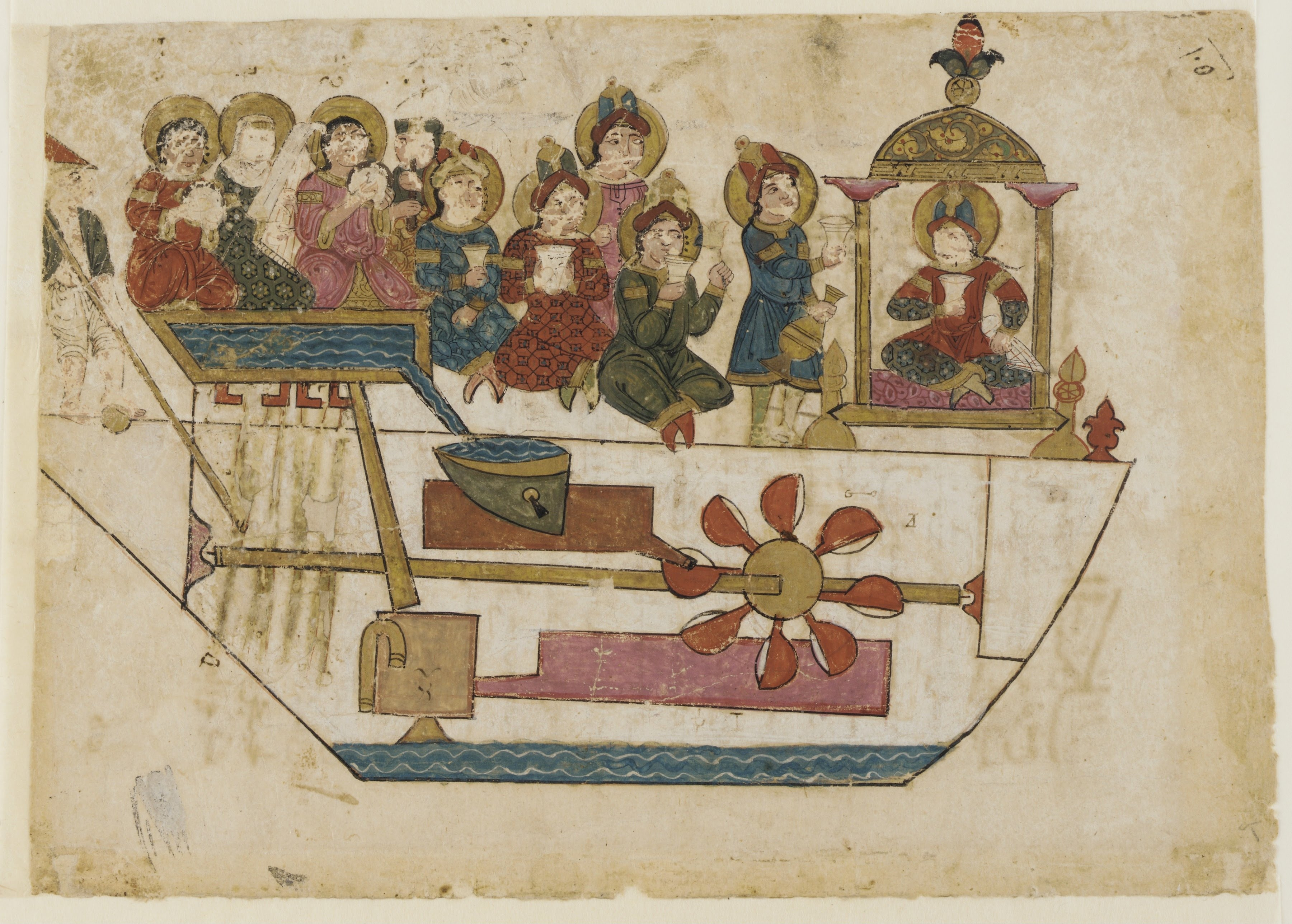 A Musical Toyfrom a copy of al-Jazari's treatise on automata, Kitab fi ma'ari-fat al-hiyal al-handasiya (1206 C.E.) Early 14th century (1315)